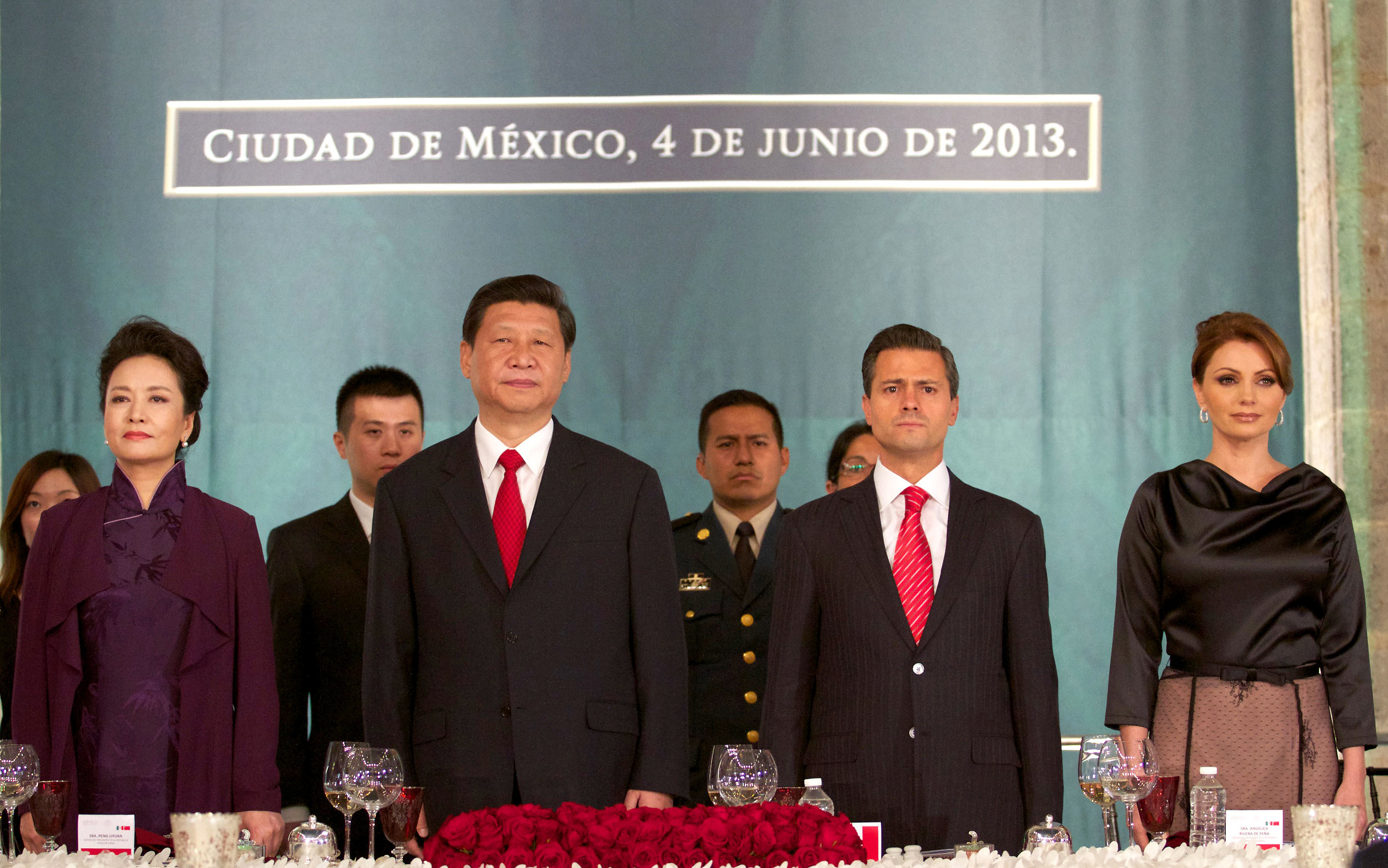 State Dinner in honor of Xi Jinping, President of the People's Republic of China, and his wife, Peng Liyuan. National Palace, Mexico City.